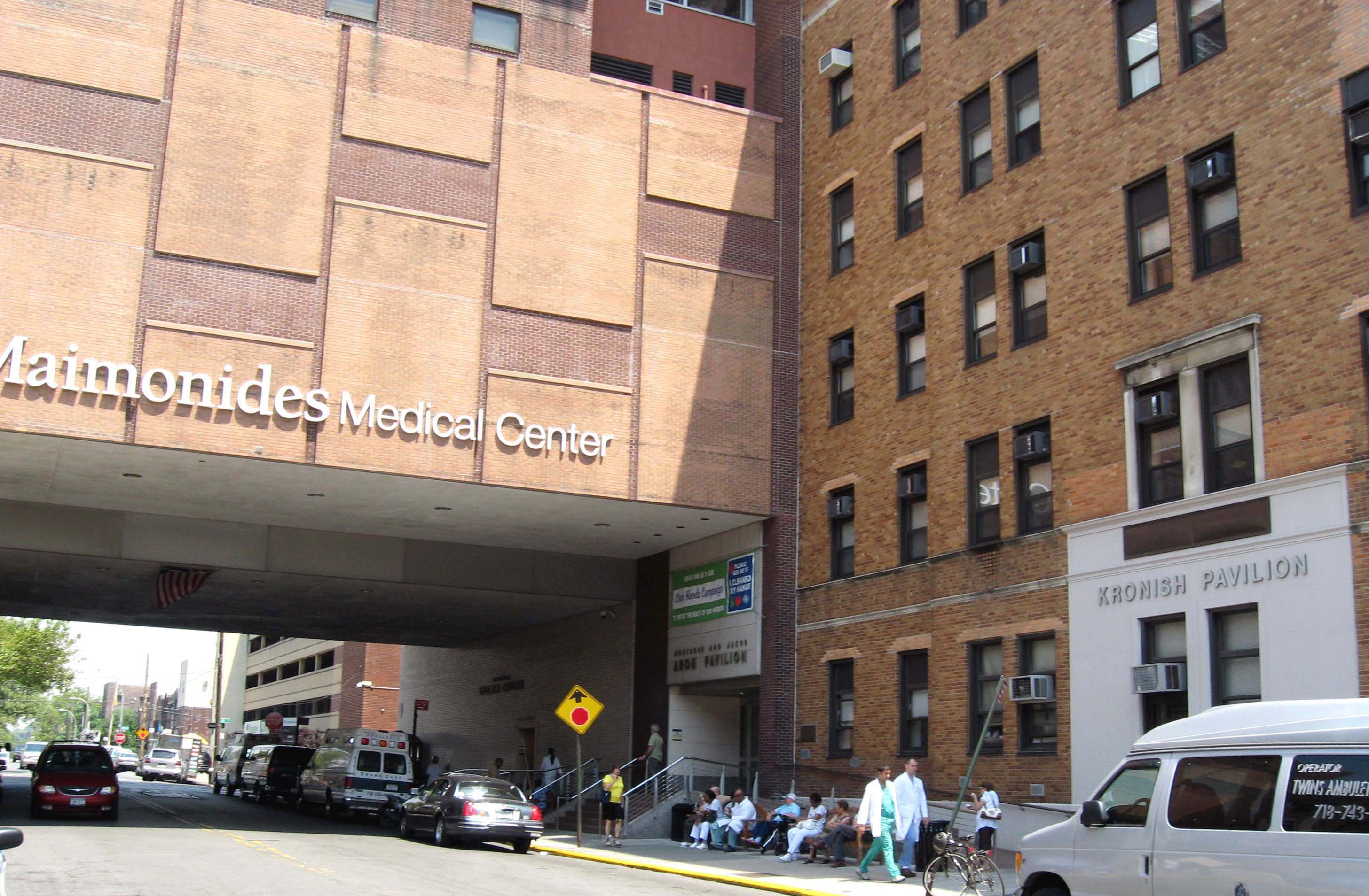 Looking east across 10th Avenue from 49th Street at Maimonides Medical Center on a sunny midday